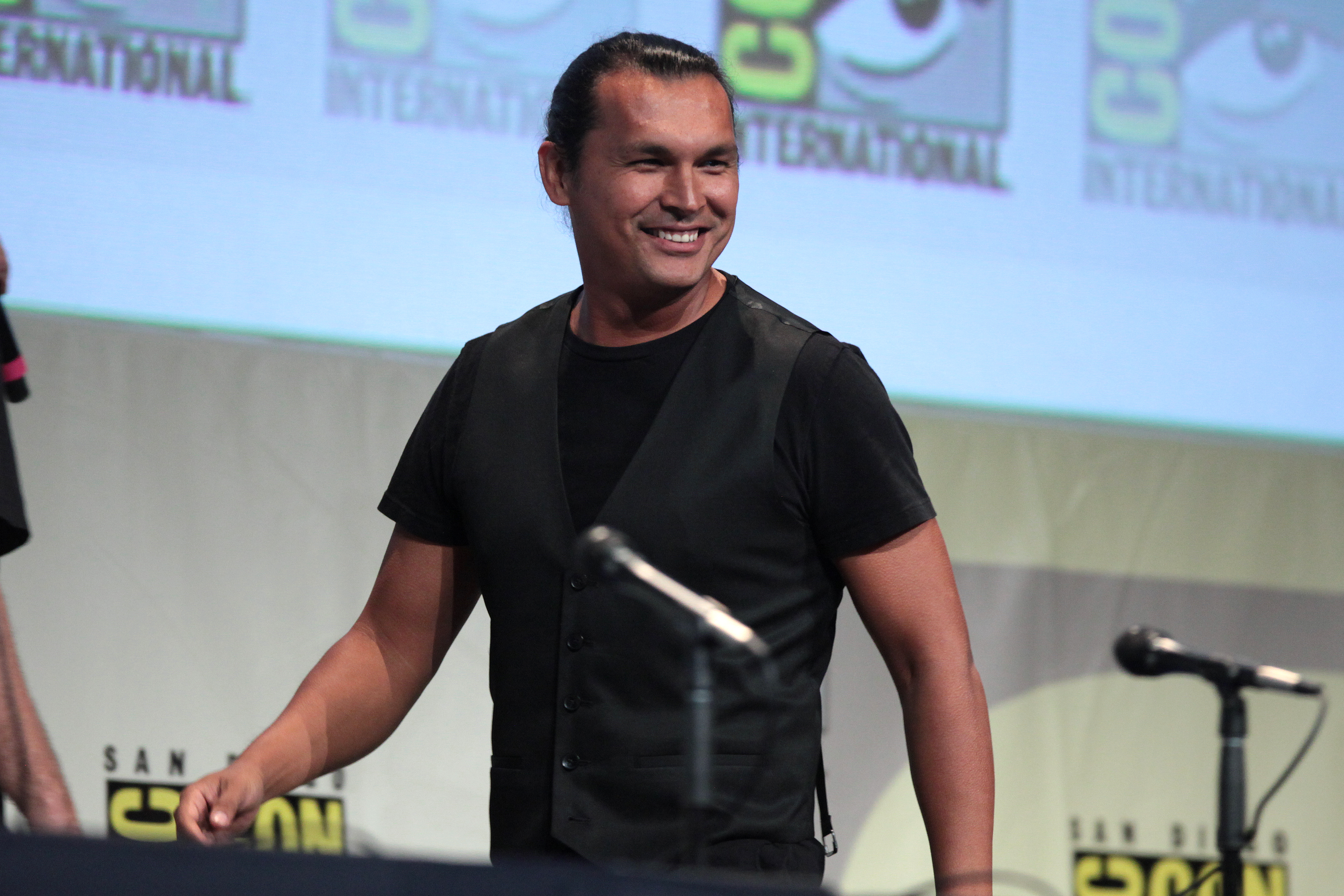 Adam Beach speaking at the 2015 San Diego Comic Con International, for "Suicide Squad", at the San Diego Convention Center in San Diego, California.